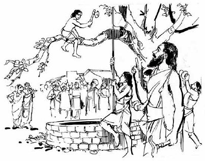 Ramdaskalyan